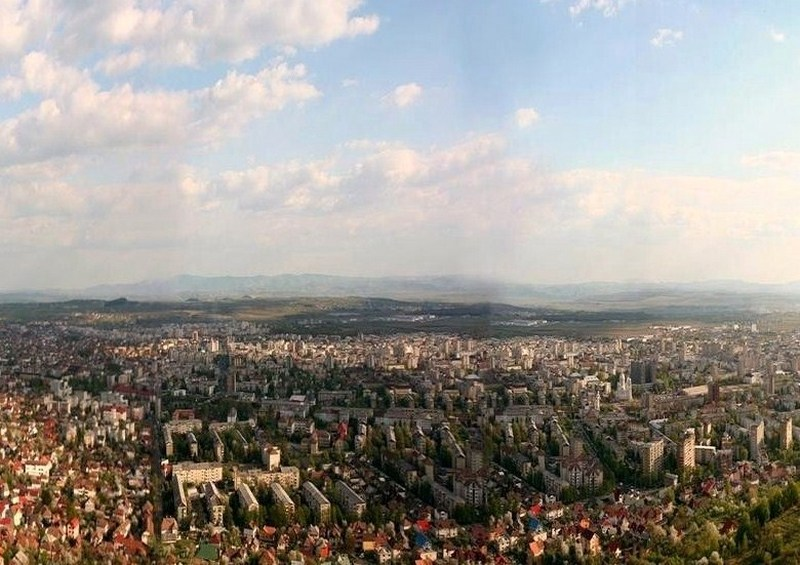 Panoramic view of Baia Mare.